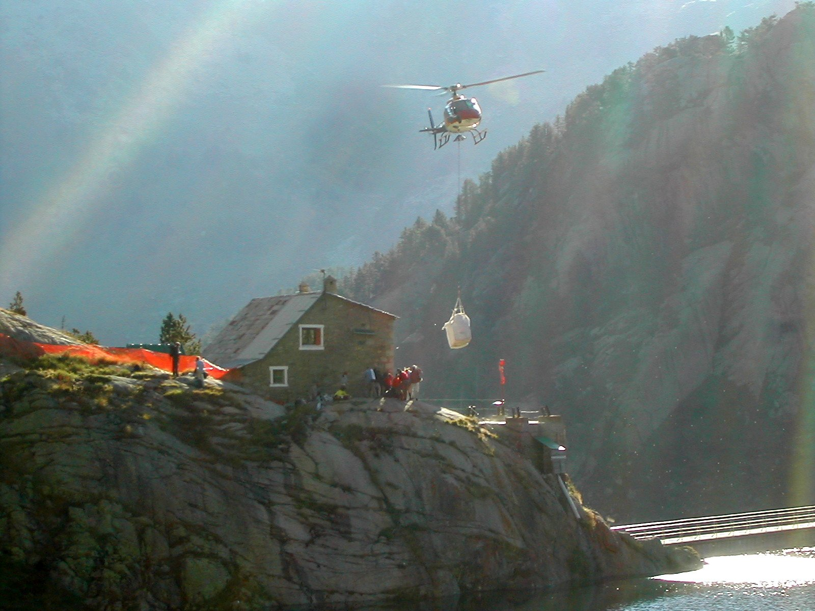 Author: David Gaya Refugi de Colomers inside National Parc Aigüestortes i Estany de Sant Maurici (Espanya). The helicopter is downloading food suppies.